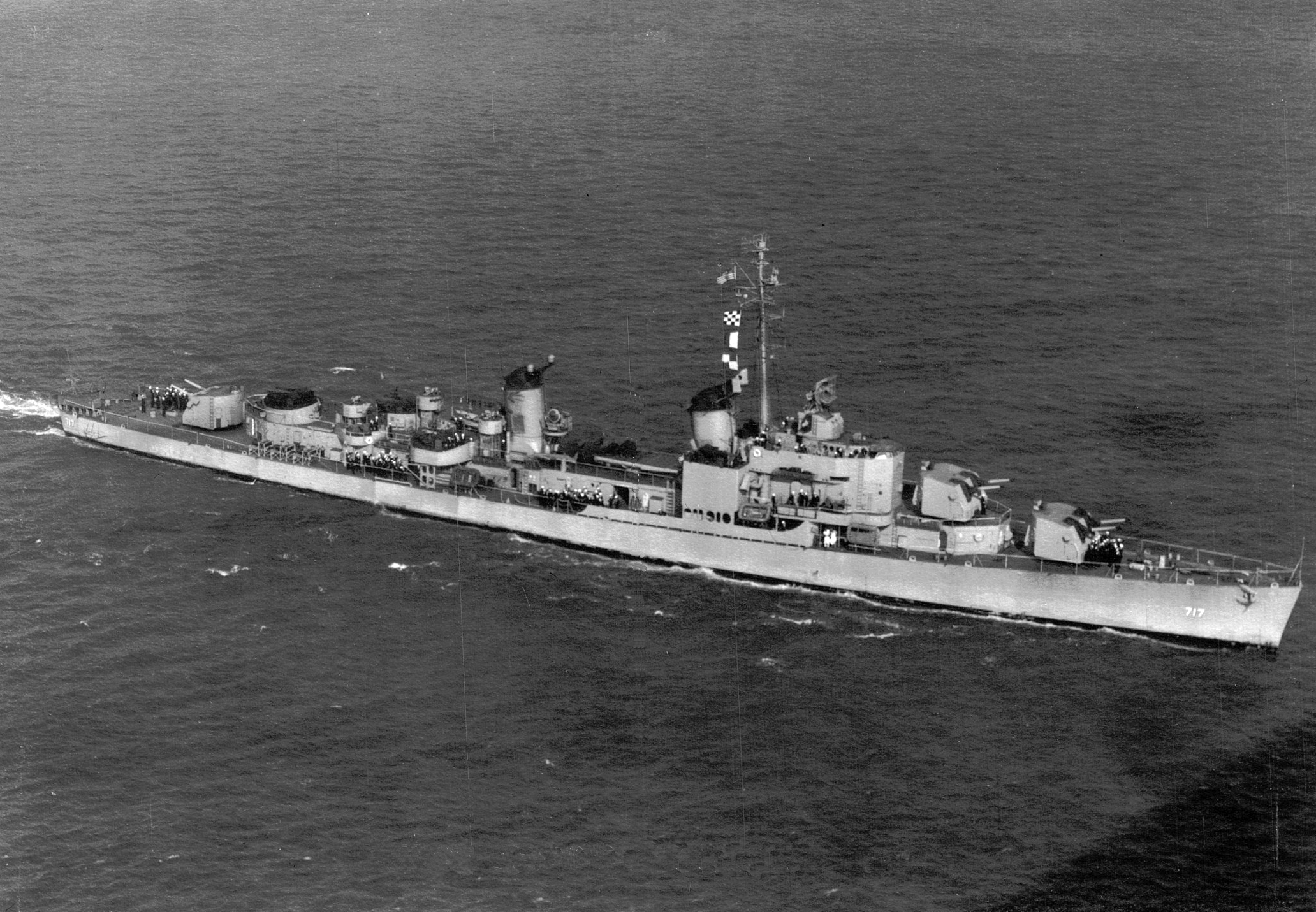 The U.S. Navy Gearing-class destroyer USS Theodore E. Chandler (DD-717), circa in 1947.